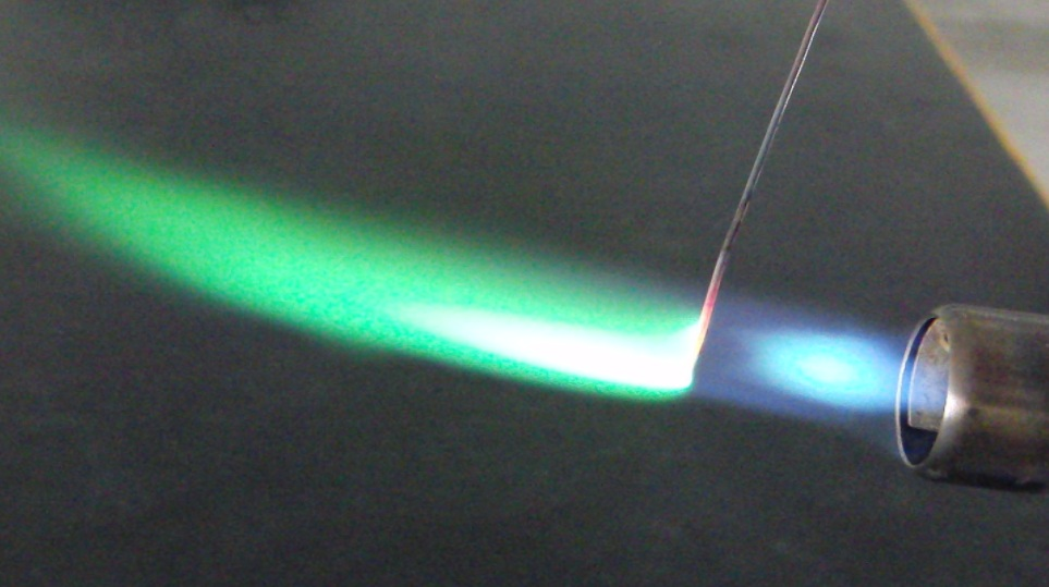 We can use copper wire to analyse if there are halogens inside compounds.